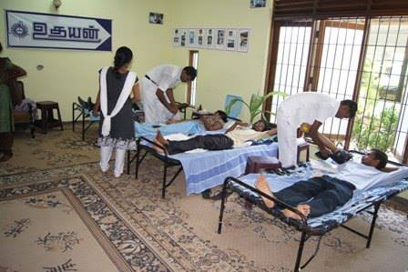 There was a blood donation by the Uthayan employees on the remembrance day of Mullivaikkal. 37 Uthayan employees donated their blood at the at the premises of the New Uthayan Publication on Saturday, 18th May, 2013.